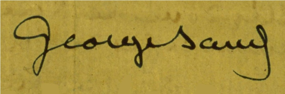 Signature of George Sand (1804-1876).